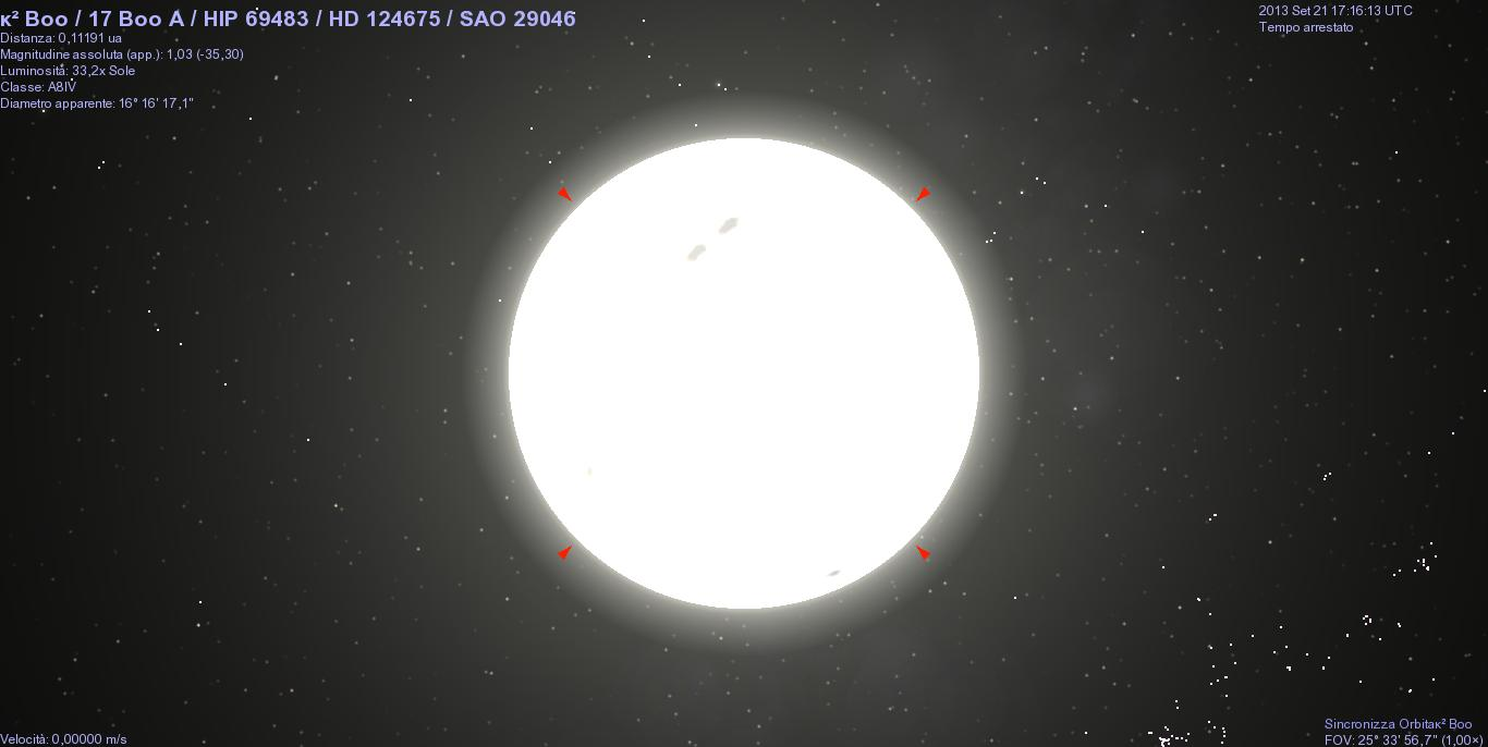 HD 124675 in Celestia